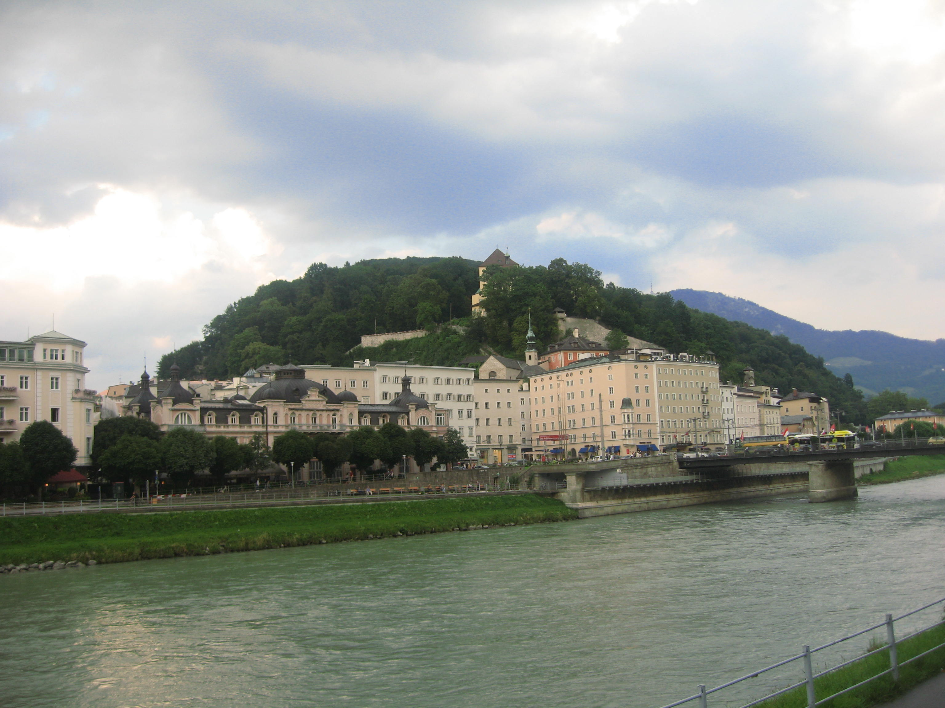 Kapuzinerberg Salzburg